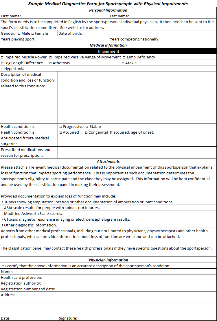 Sample medical classification form for disability sports. Sports classification bodies have their own specific ones that use variants of a form like this.